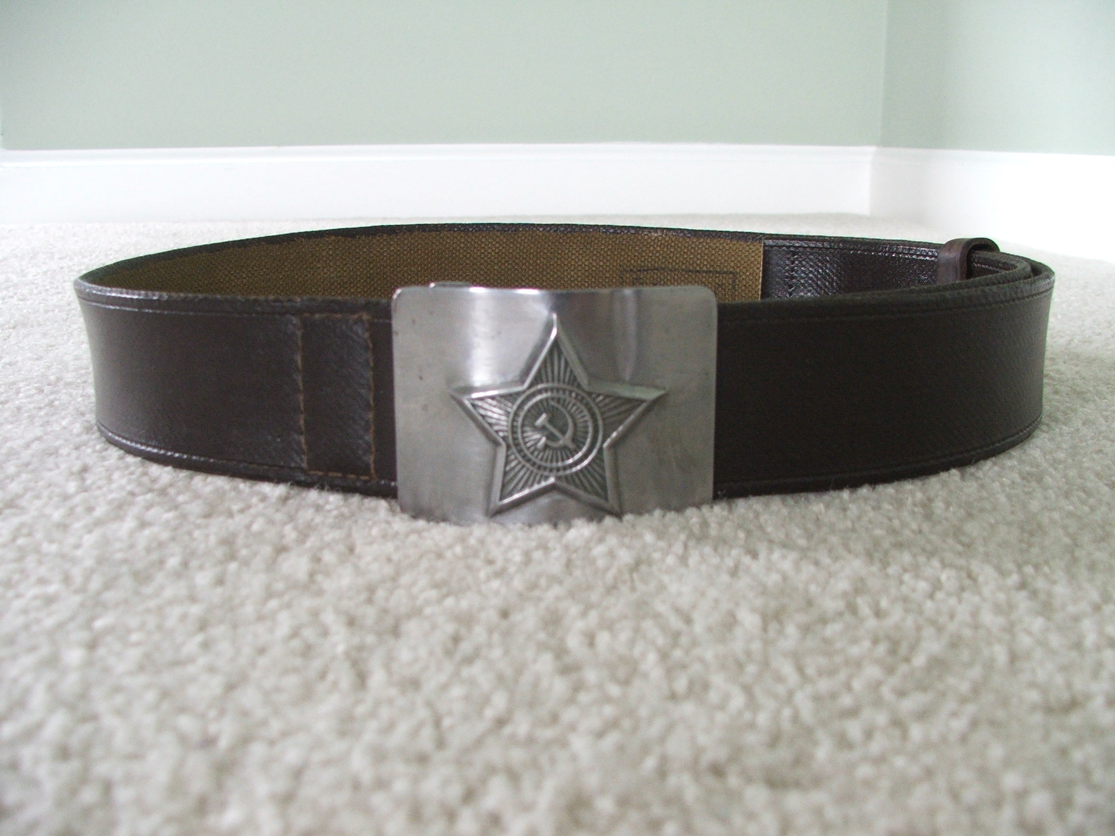 Belt of soldier of the Soviet Army.